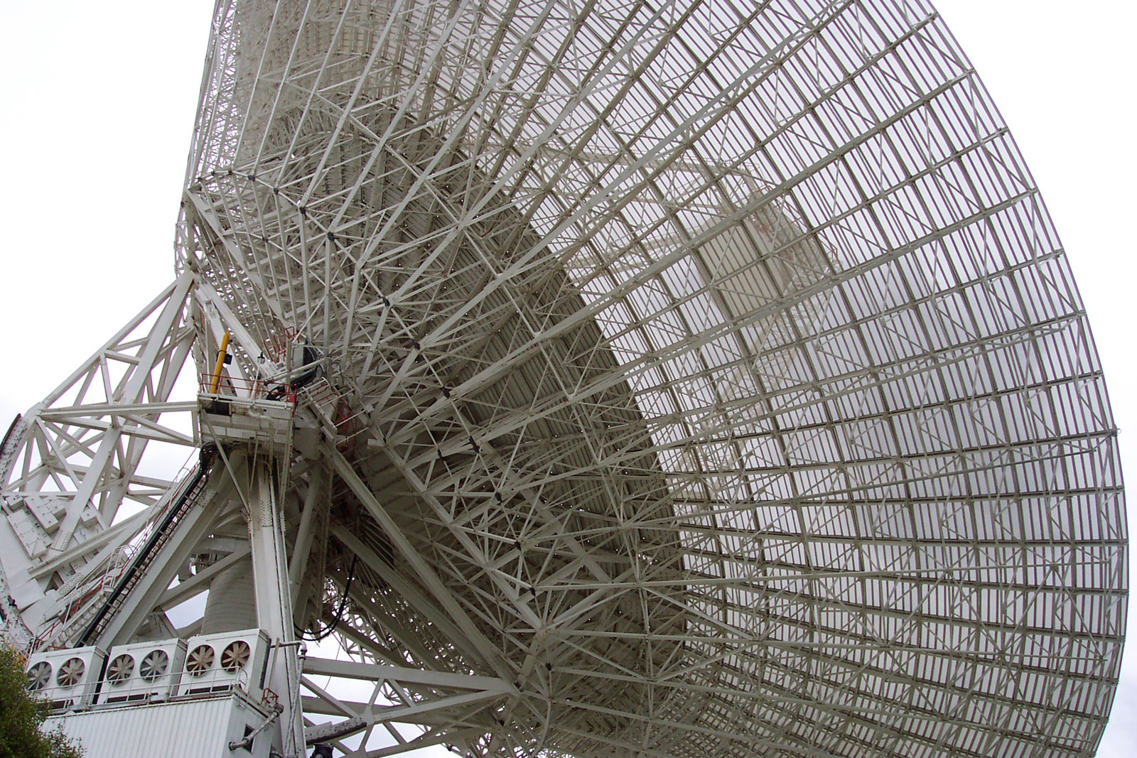 Antenna at Canberra Deep Space Communications Complex. I took the picture on a uni trip. Taken by Enoch Lau on 30 September 2004. As a courtesy, please let me know if you alter this image or this image description page. Original filename was 100_3398.JPG.